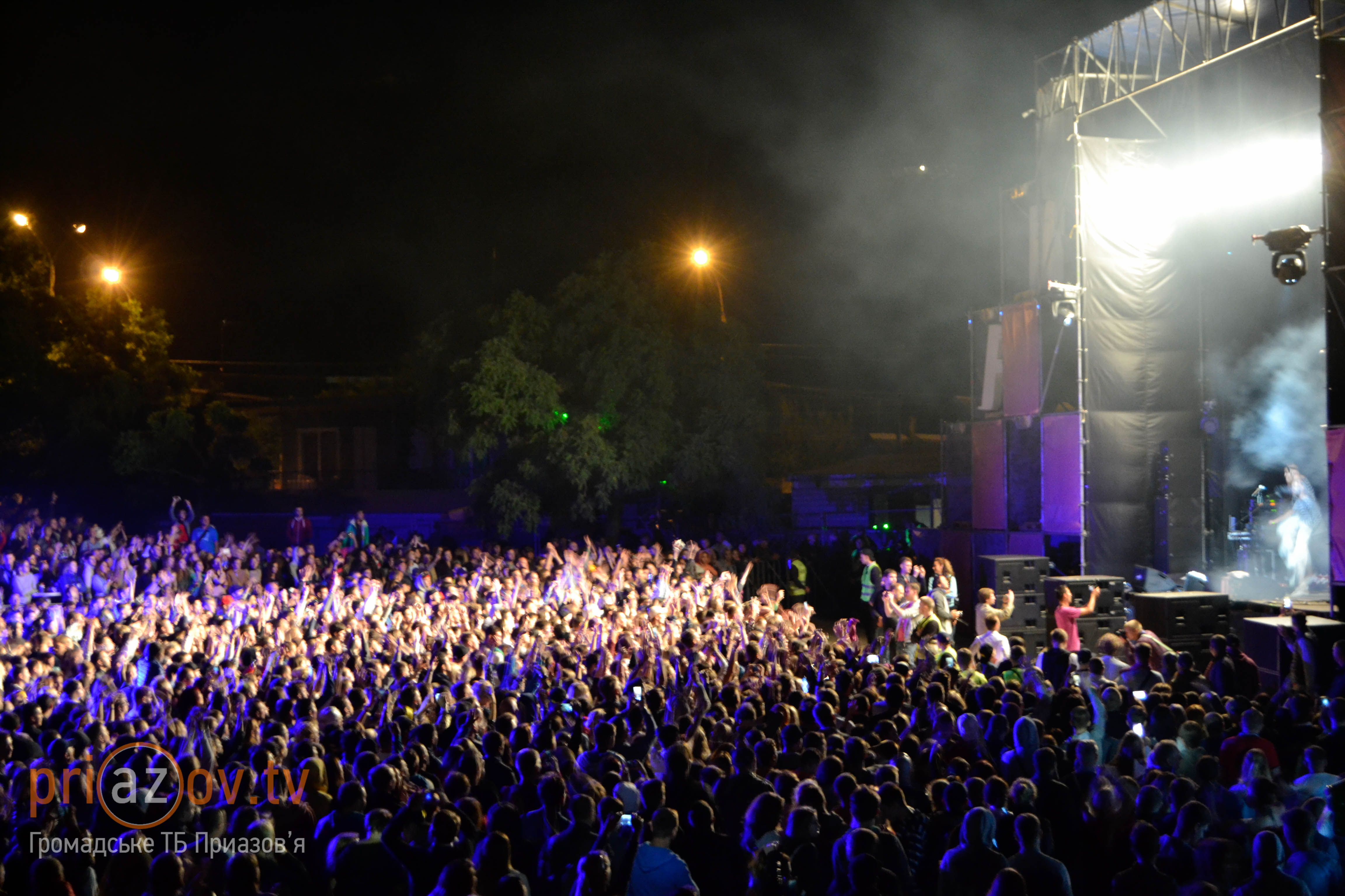 Crowd listening to Ivan Dorn at the MRPL City 2017 fest in Mariupol.